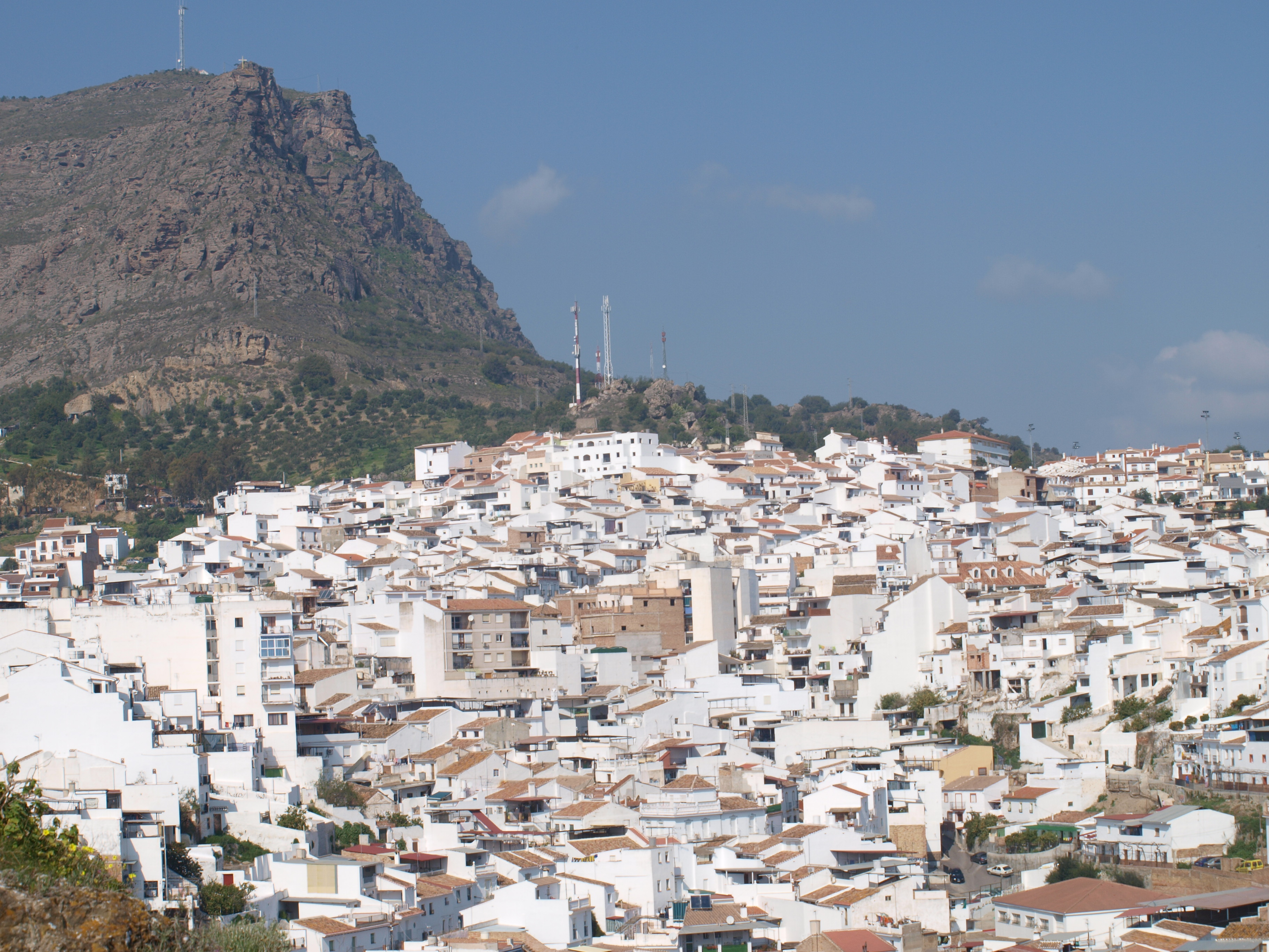 Alora town in Malaga, Andalucia, Spain.